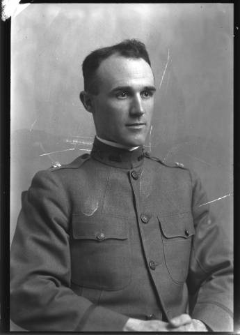 Gregory Hoisington